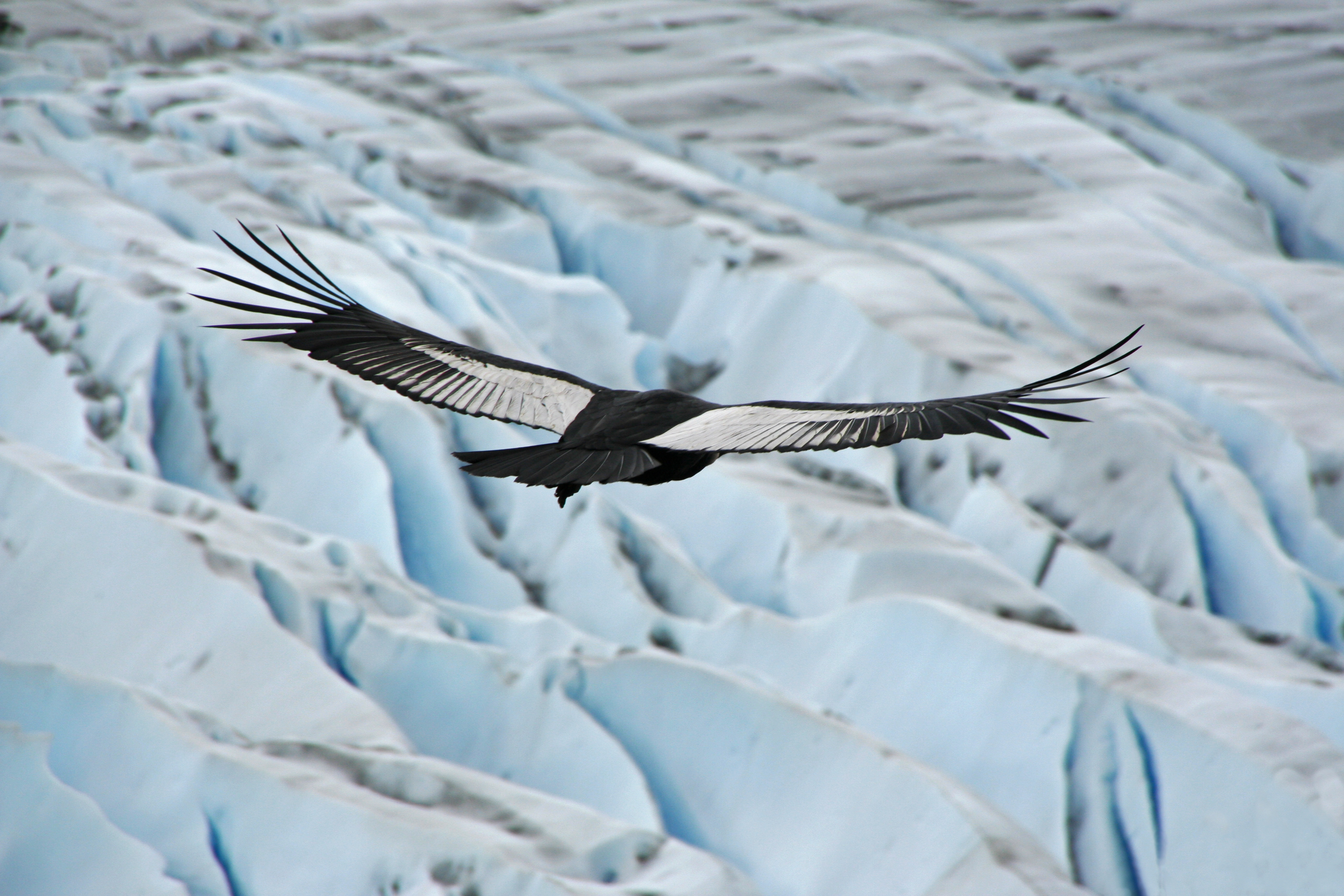 Andean Condor flying over glacier grey, in Chili